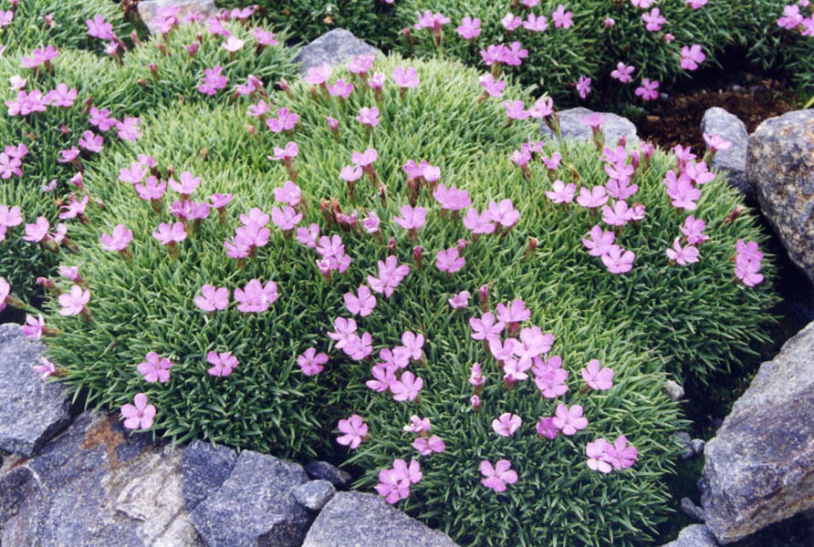 Dianthus anatolicus